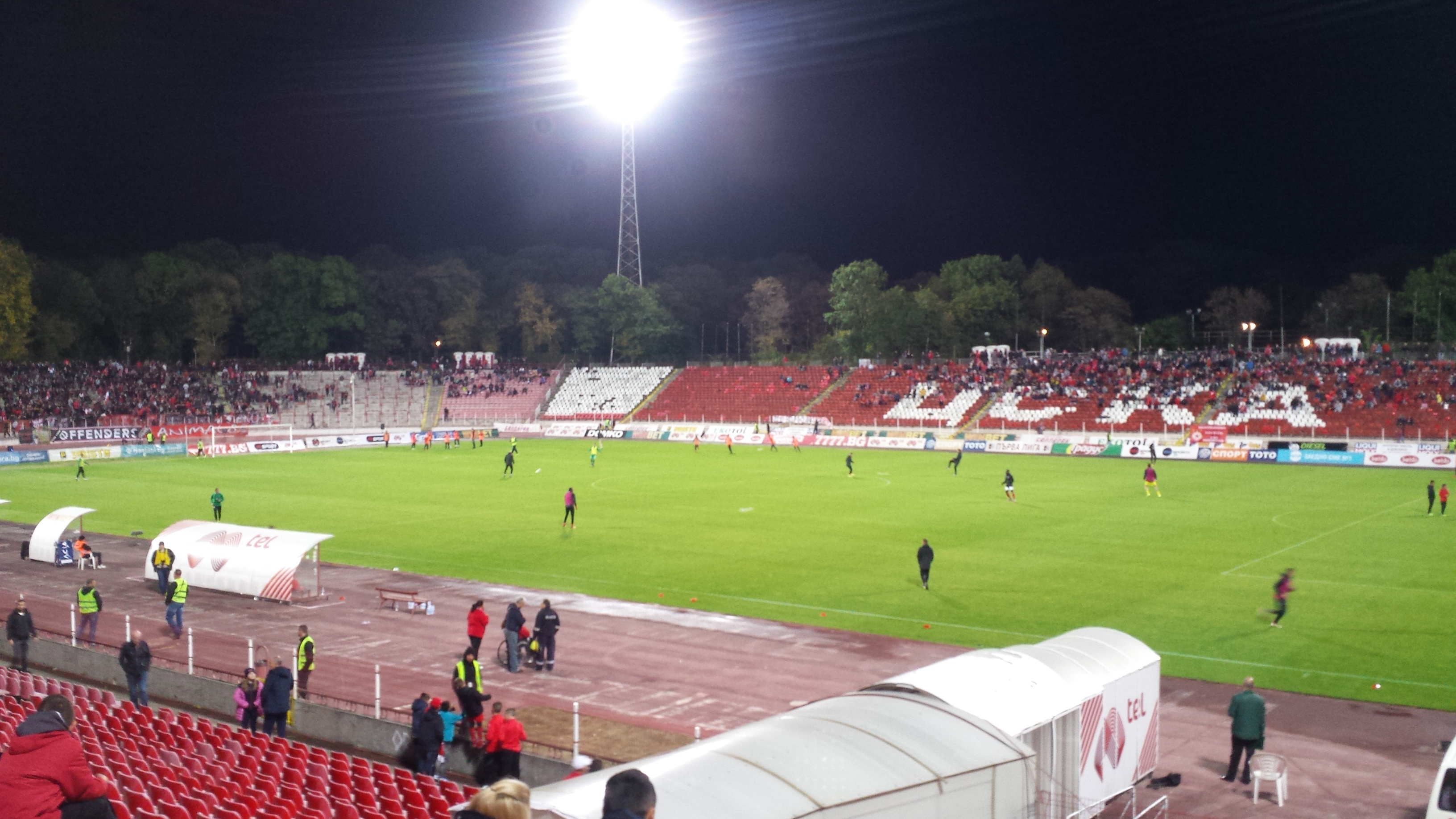 Balgarska Armija Stadium in Sofia, Bulgaria